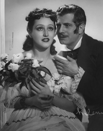 Herminia Franco-Floren Delbene